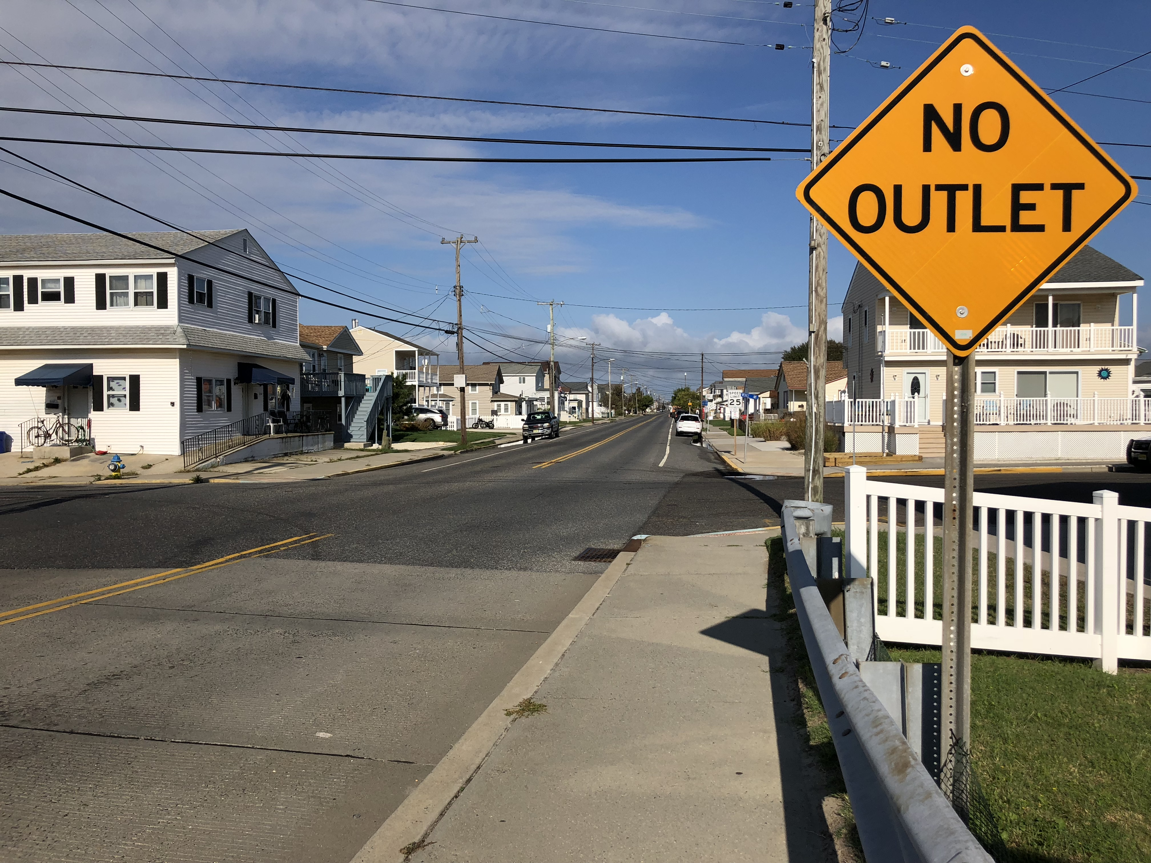 View north along Cape May County Route 614 (Glenwood Avenue) at Venice Avenue in West Wildwood, Cape May County, New Jersey